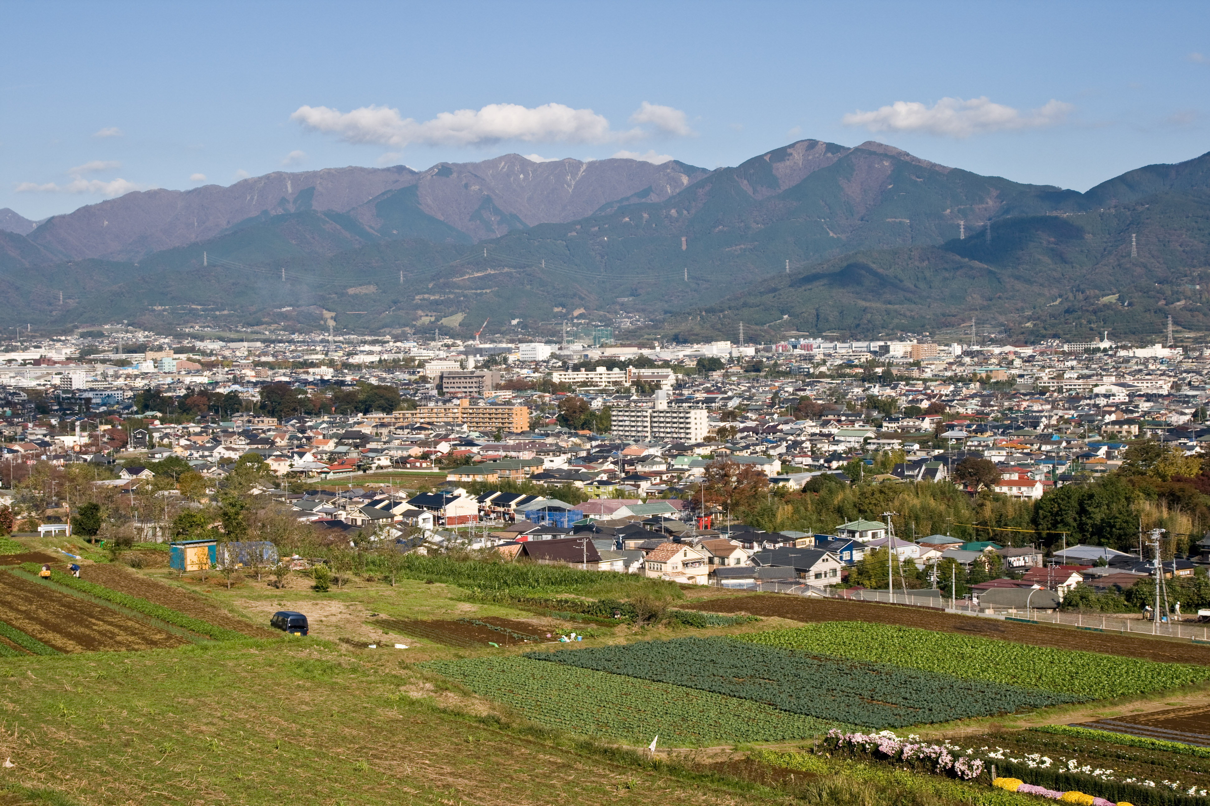 Hadano Basin (秦野盆地 はだのぼんち Hadano-bonchi) seen from Shibusawa Hill Range, Kanagawa Pref., Japan.